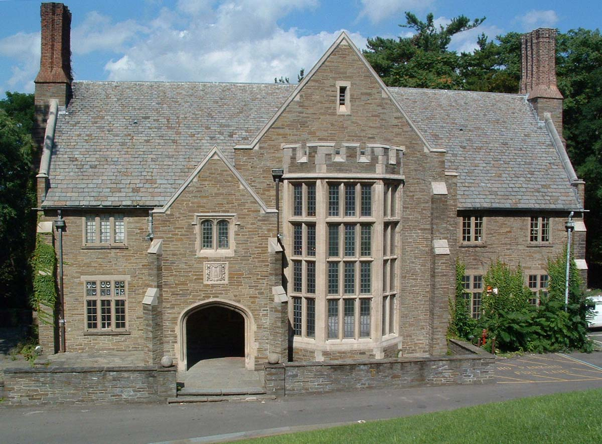 Alpha Delta Phi fraternity's Cornell University Chapter House, Ithaca, NY. Designed c. 1931 by John Russell Pope.